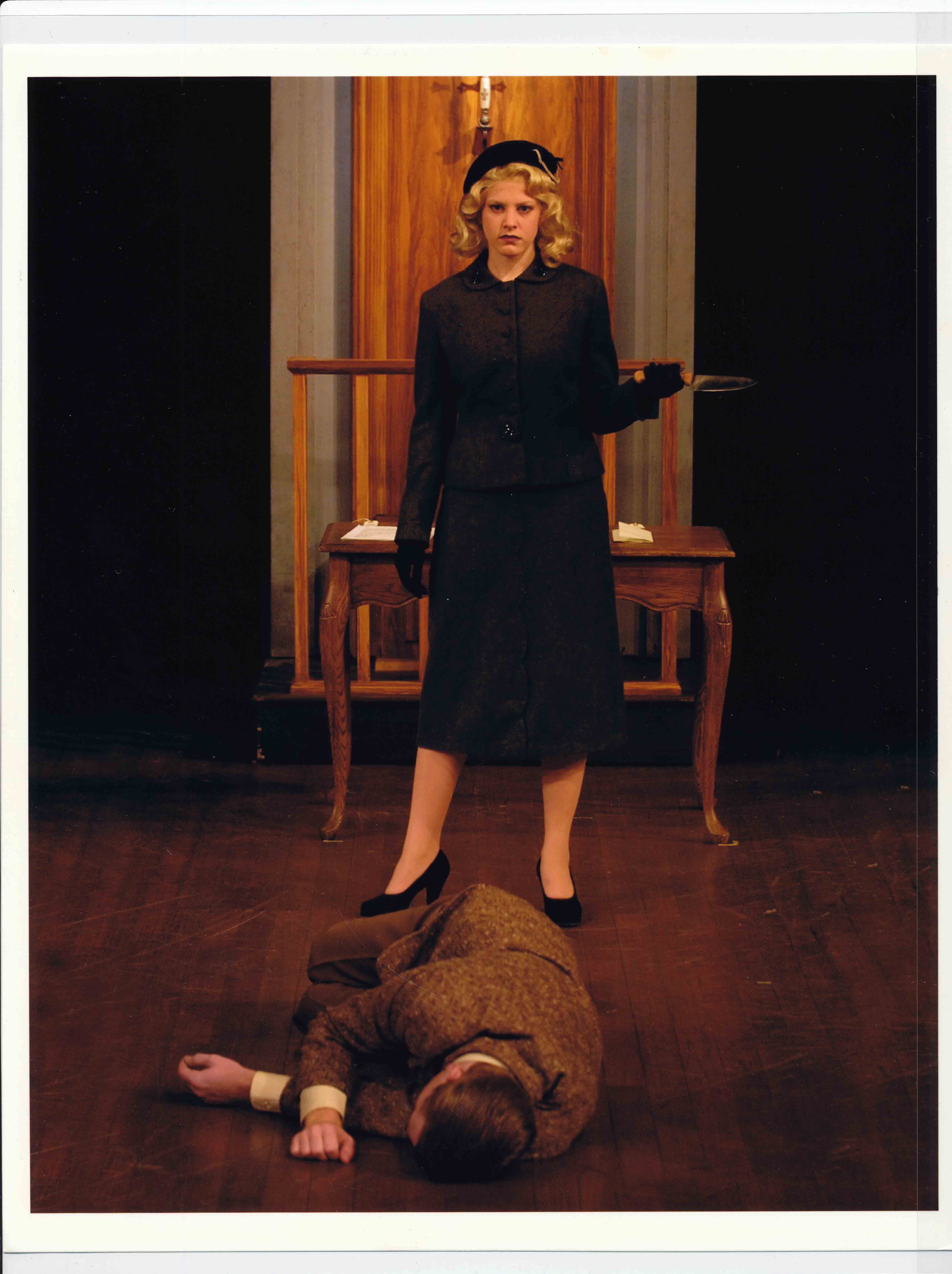 WitnessForTProsecution1